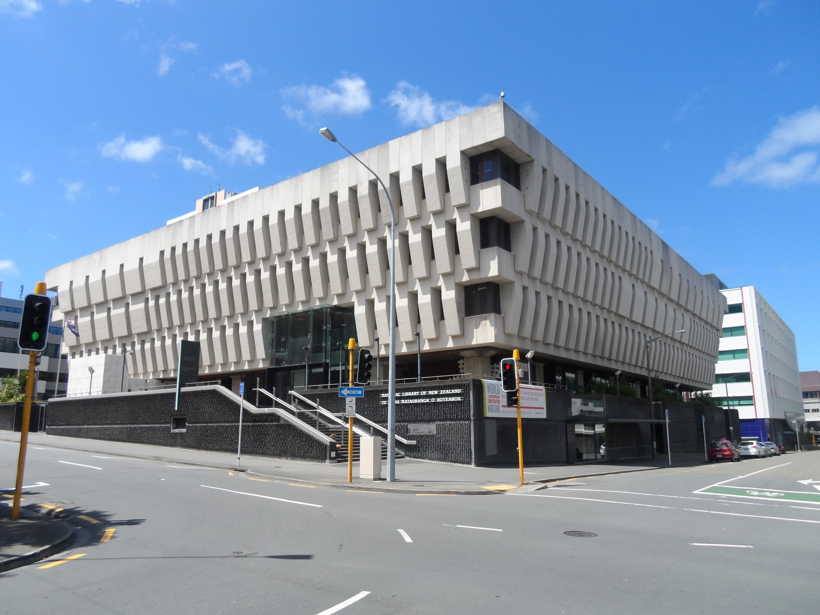 National Library of New Zealand in Wellington in 2015.